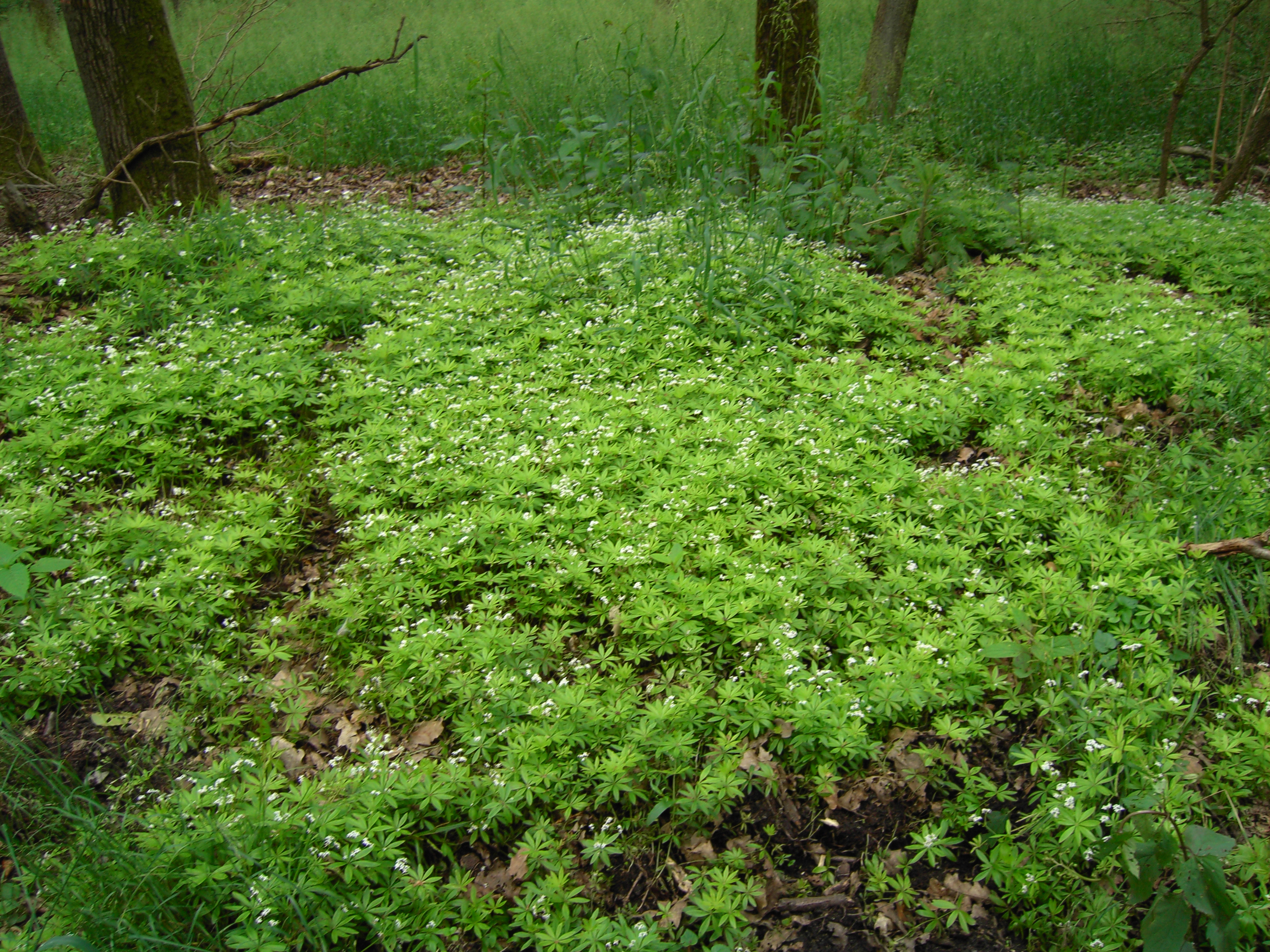 Big Group of Woodruff (Galium odoratum) in the Taunus Mountain's forest. Example for the built of Woodruff in Groups. Made with a Acer CR-8530